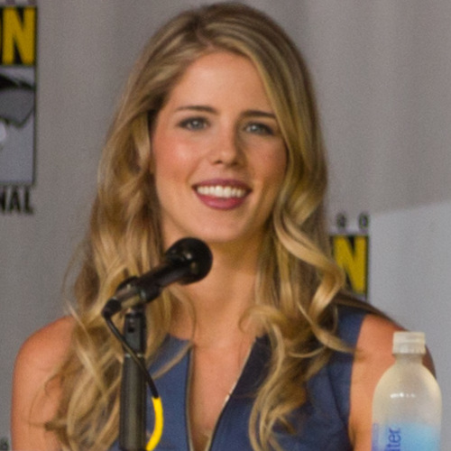 Emily Bett Rickards on the "TV Guide Magazine: Fan Favorites" panel at the 2013 Comic-Con.